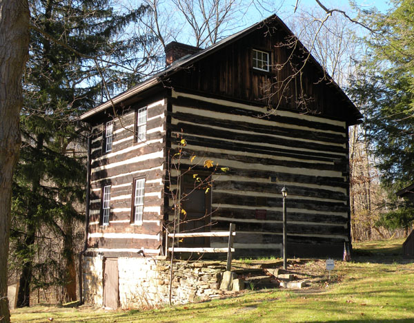 Picture of the Walker-Ewing Log House in Collier Township, Allegheny County, Pennsylvania, on November 14, 2009. The house was built around 1790, and is listed on the National Register of Historic Places.